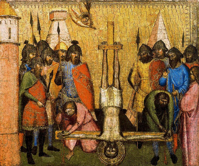 Jacopo di Cione Polyptych San Pier Maggiore, detail of predella. 1370-71 Pinacoteca Vaticana